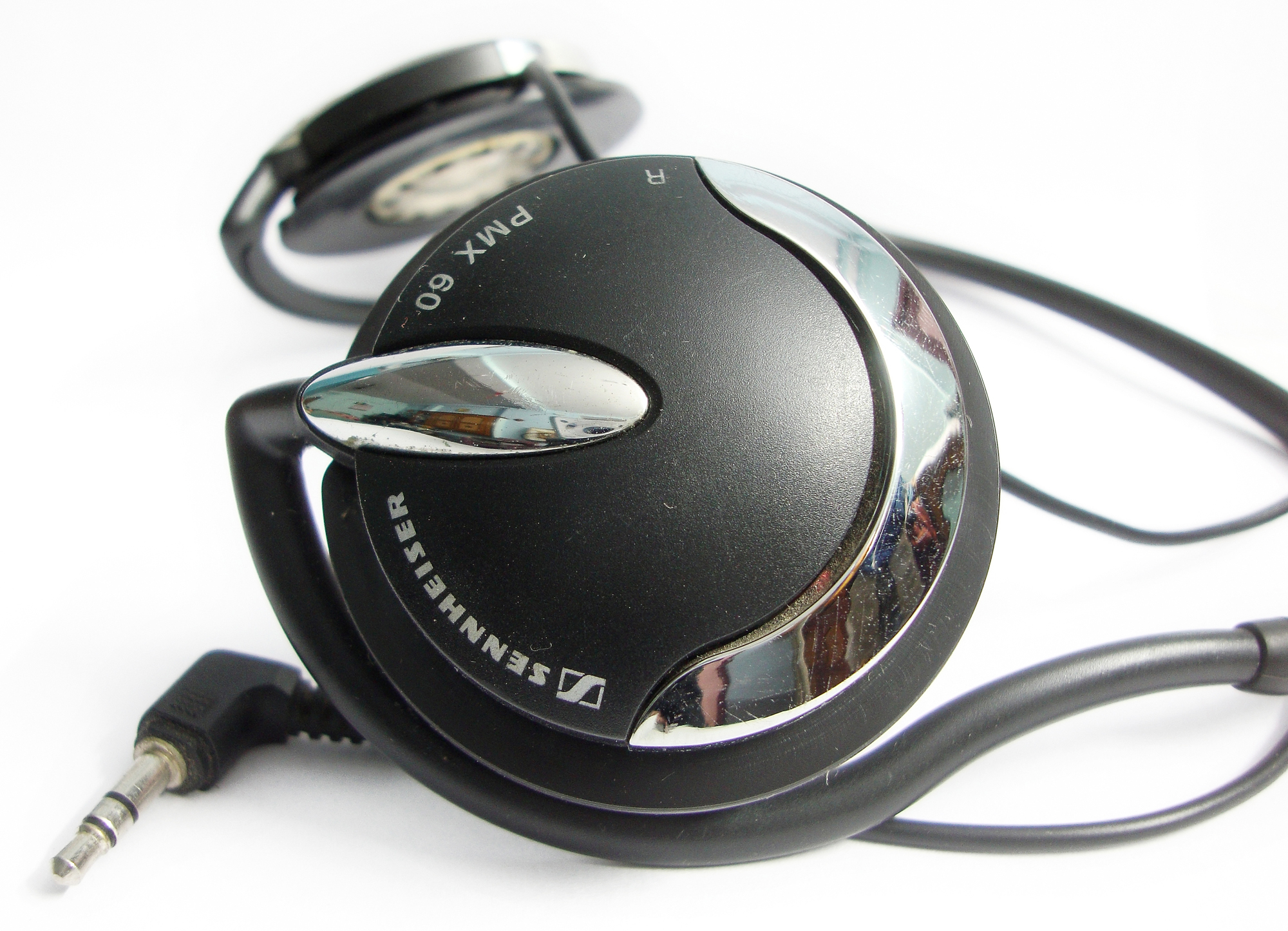 Sennheiser PMX 60 neck-worn headphone